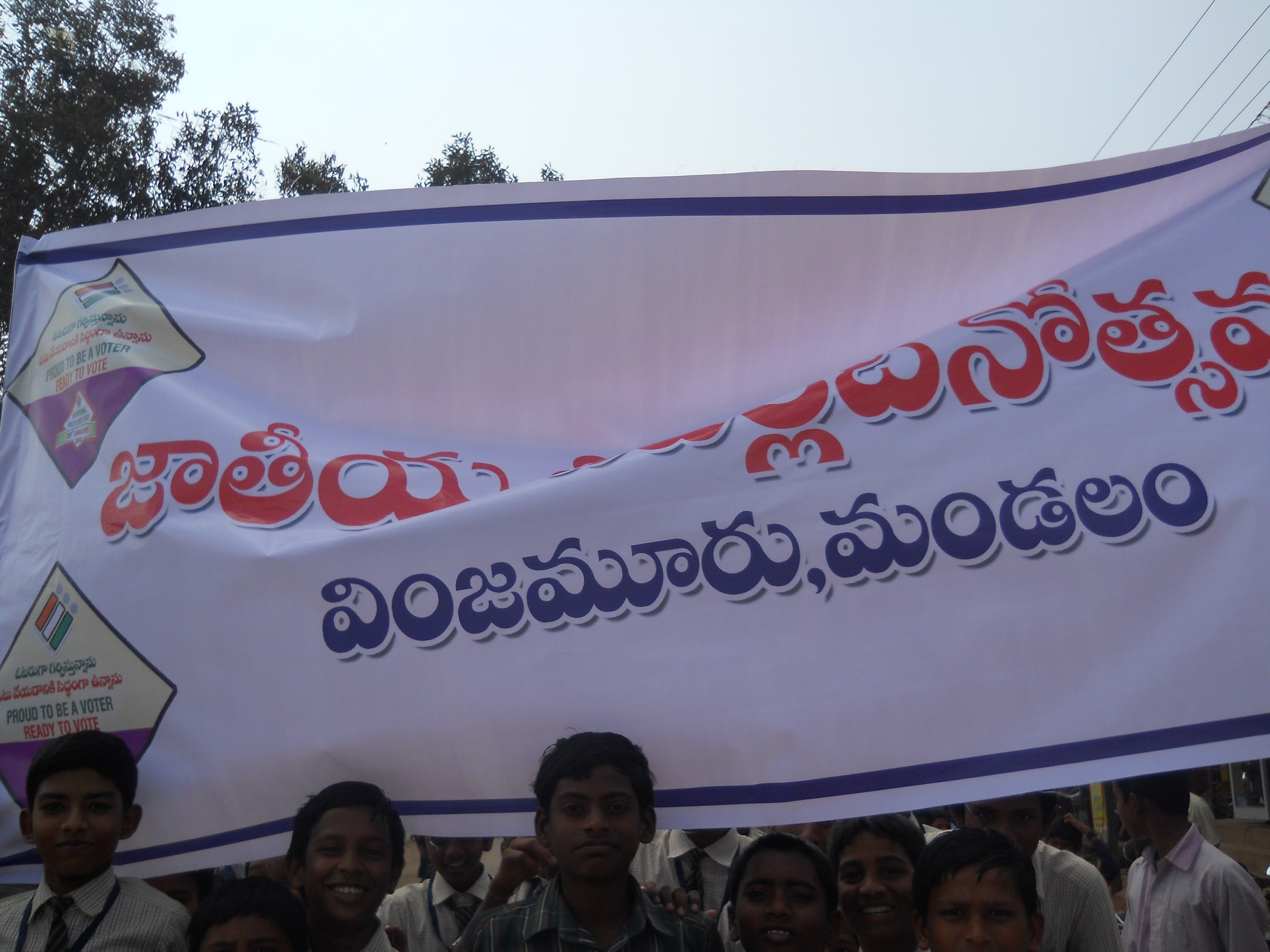 Students rally on National Voters Day.